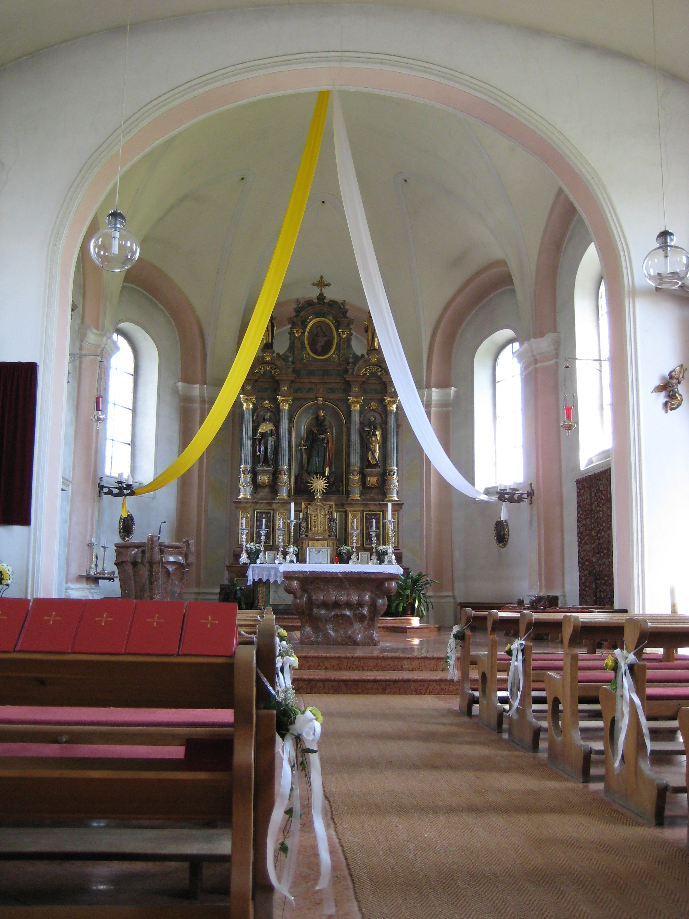 Abbey Sankt Oswald in Sankt Oswald-Riedlhütte